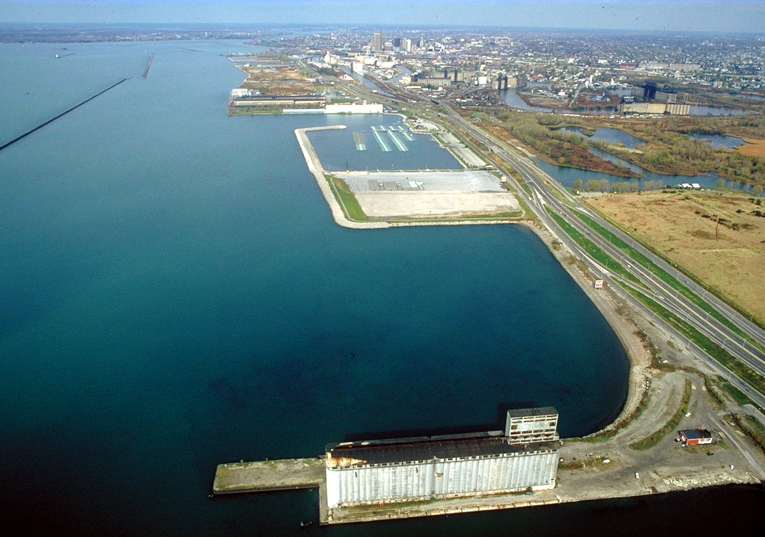 Aerial view of Buffalo, New York, USA, on the lower end of Lake Erie. The view is north along the shoreline toward the Niagara River. New York State Route 5, the Buffalo Skyway, runs north–south along the harbor.